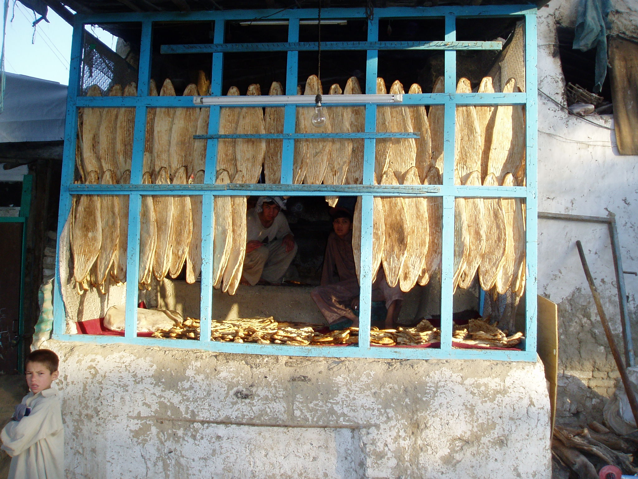 Long Afghan bread